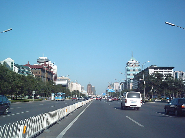 Jianguomen Inner Street. DF08 2004 image.